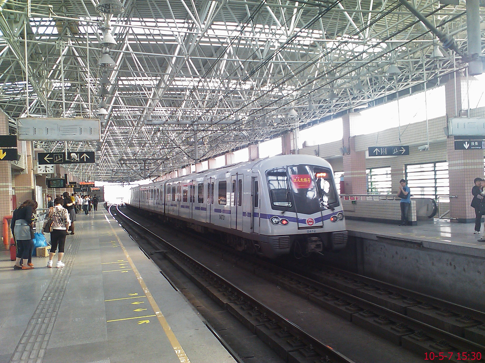 Train of Shmetro Line 4, type AC-05中文（中国大陆）: 上海轨道交通4号线AC-05型列车